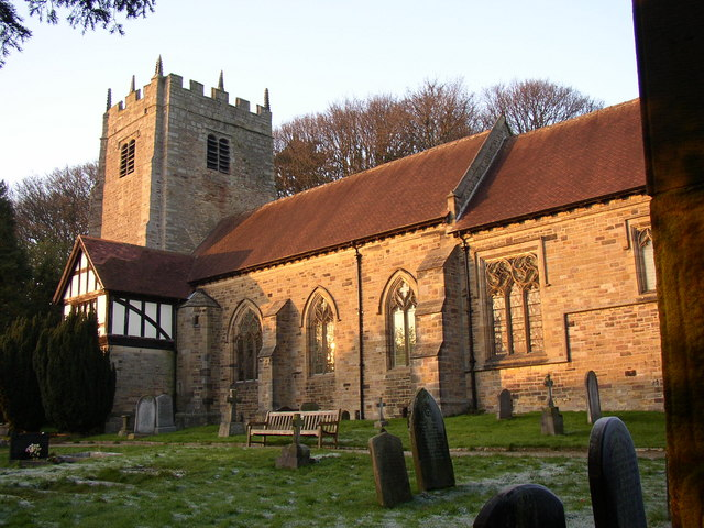 St Wilfrid's Church, Halton Apart from the medieval tower, this church was built in 1876-7, designed by Paley & Austin. Pevsner wrote that their work can be recognised “by their red tiled roofs and the subtly composed variety of the Dec (Decorated style) S windows”. The shaft of the Halton Cross has sneaked into the picture on the right.